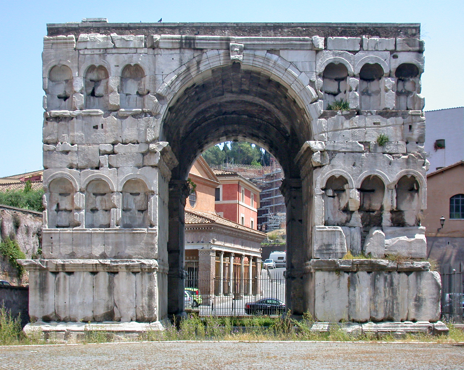 Rome. Arch of Janus in the Foro Boario. Facade towards the Tevere river. Through the arch, the porch of the church of Saint George in Velabro is seen.